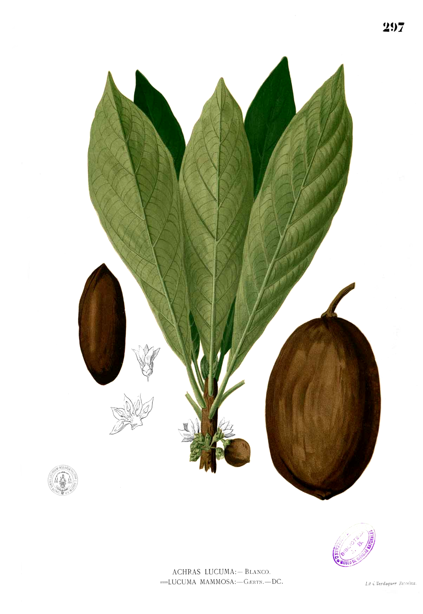 Plate from book